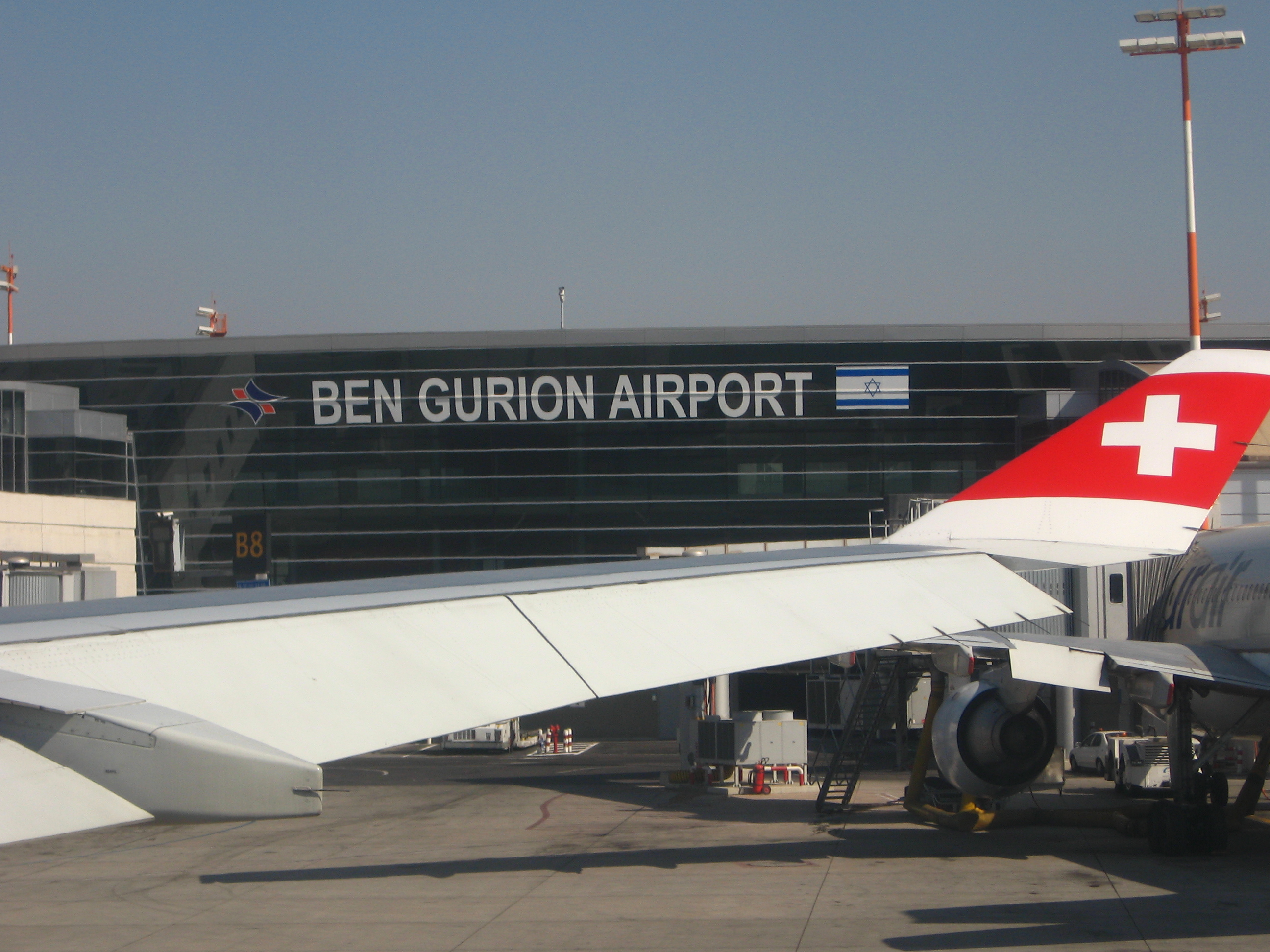 main building of Ben Gurion International Airport as seen on the tarmac from an A340-300 from SWISS